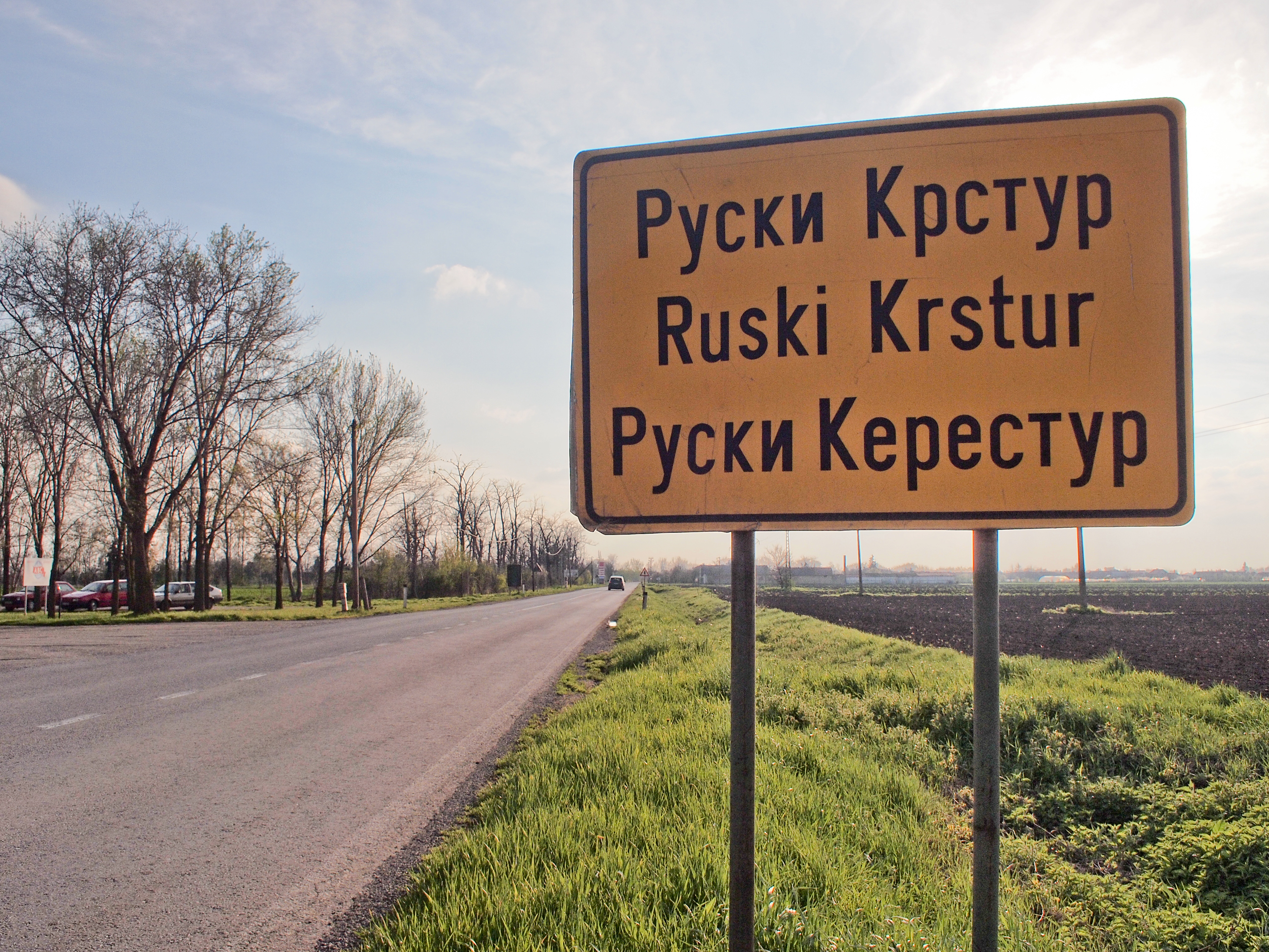 Ruski Krstur city sign on the road from Kula. (Time is EET.)